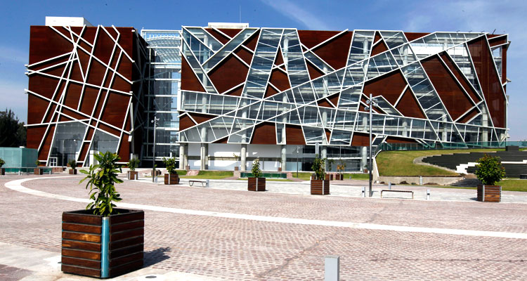 kigyuj